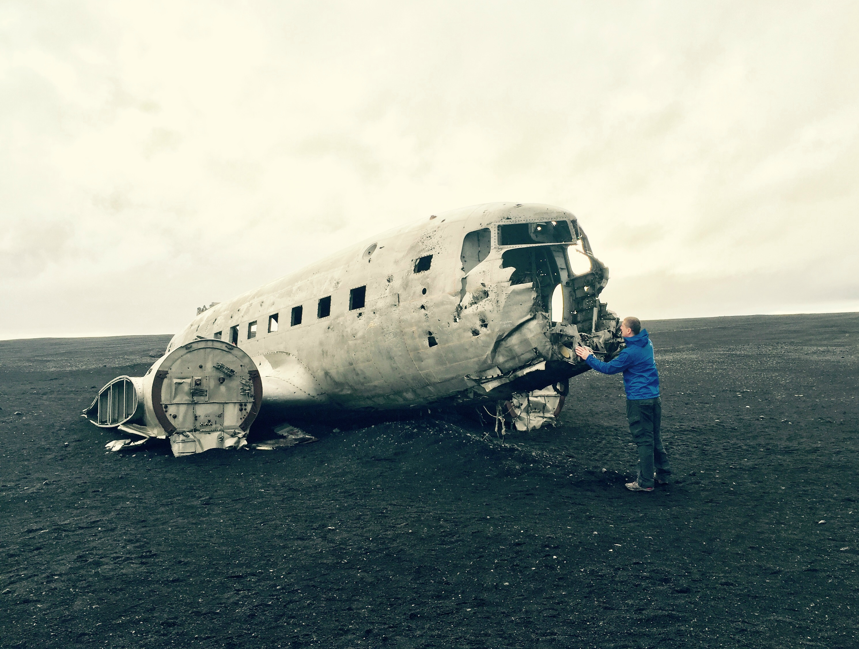 Airplane Wreckage at Sólheimasandur, South Iceland